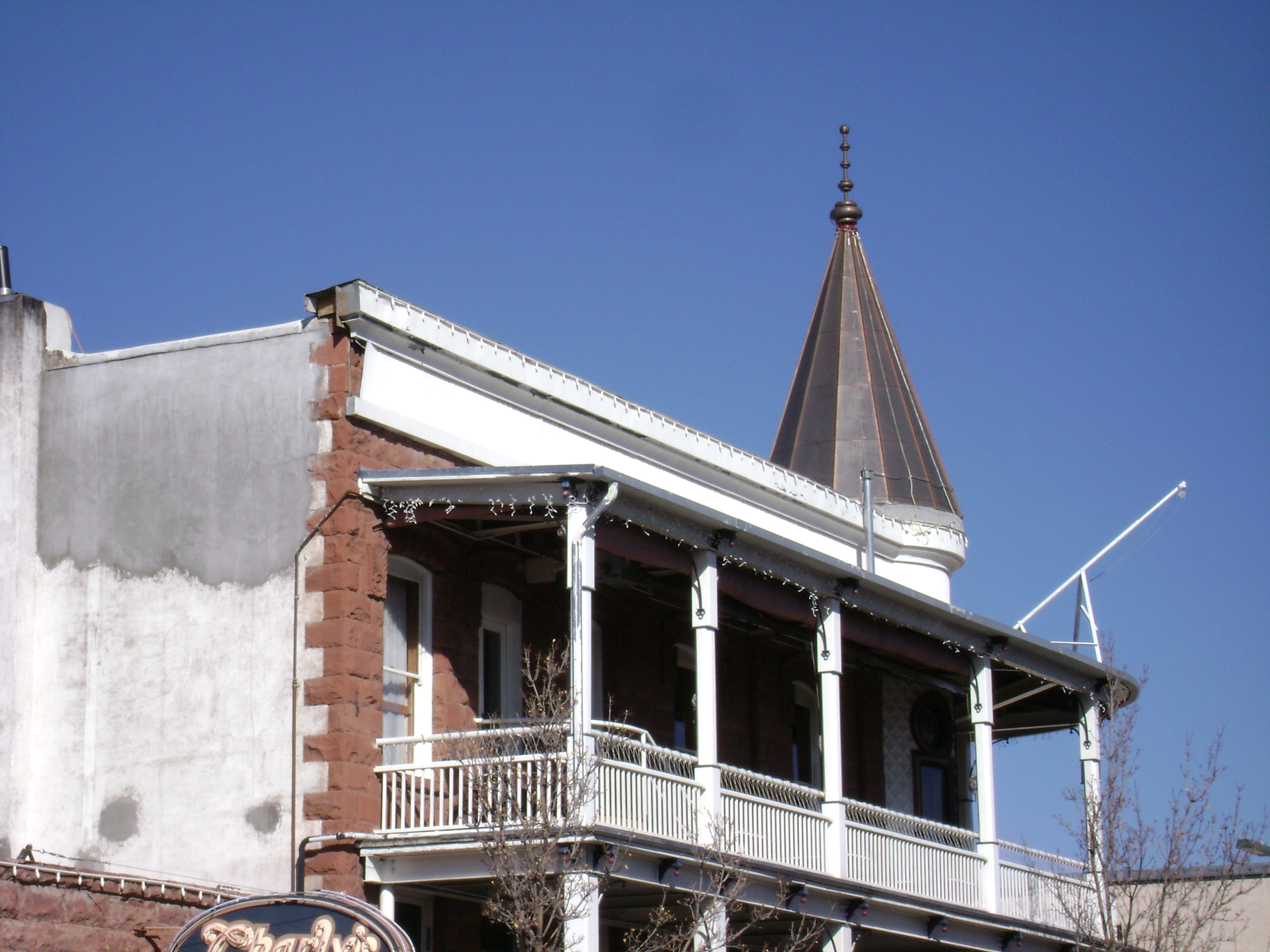 Weatherford Hotel, Flagstaff Arizona